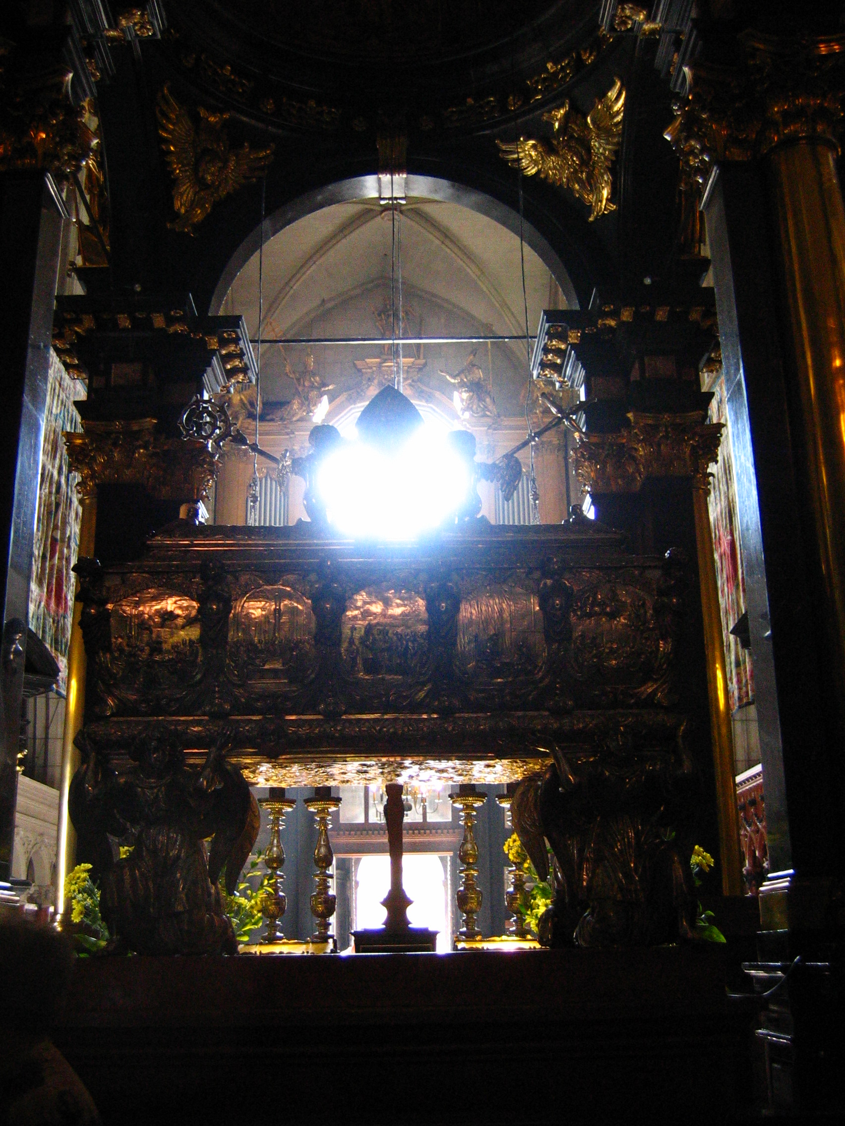 Wawel Cathedral